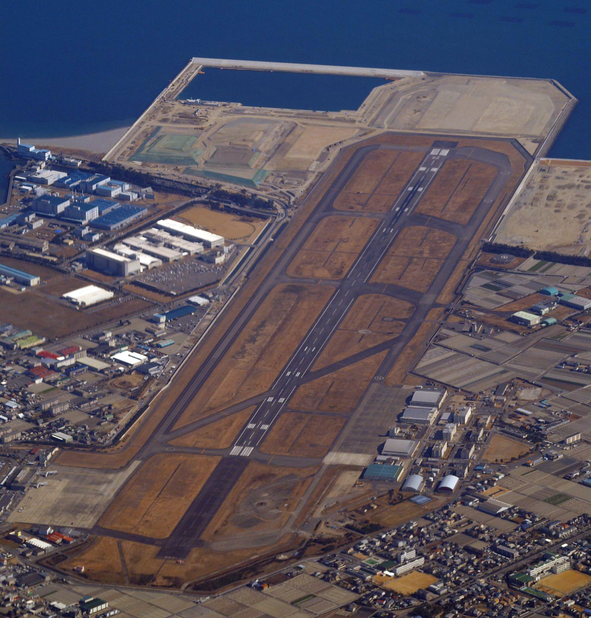 (2007/02/03 In Flight, JL3384, Matsushige, Itano, Tokushima, JAPAN)